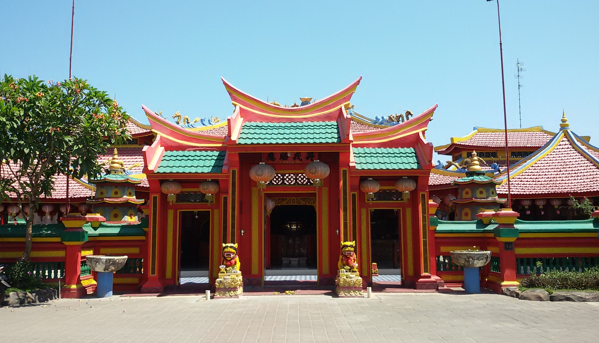 The front side of Caow Eng Bio Temple, the oldest Chinese Temple in Bali.